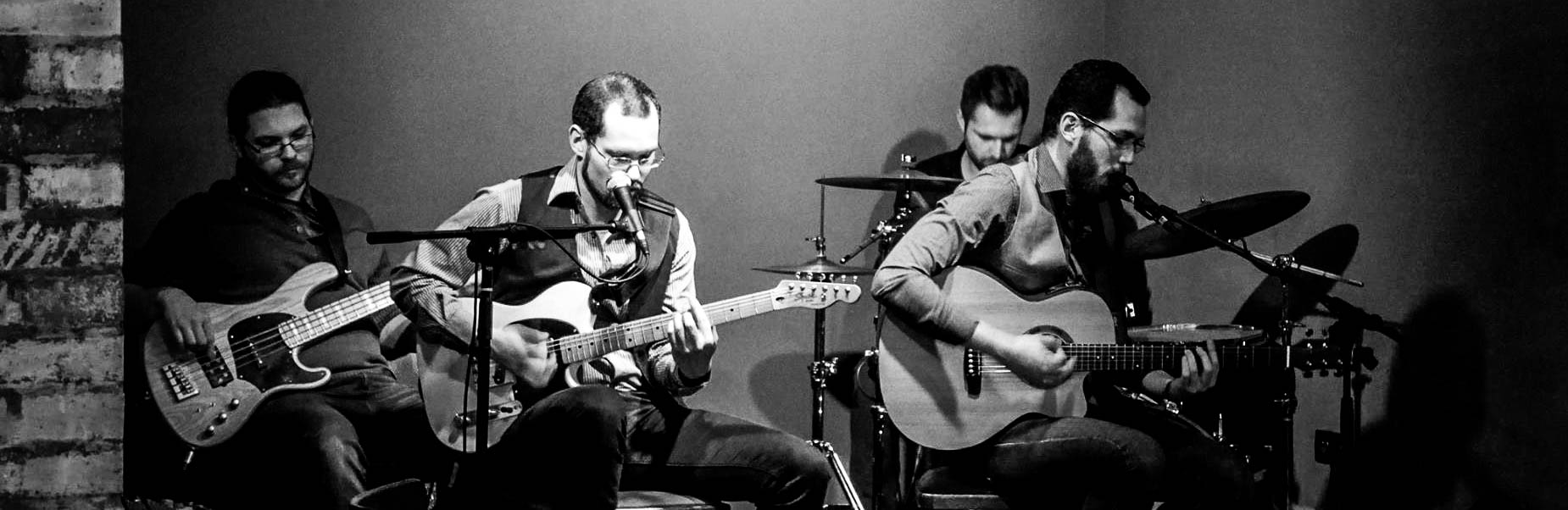 The Butchers in 2016